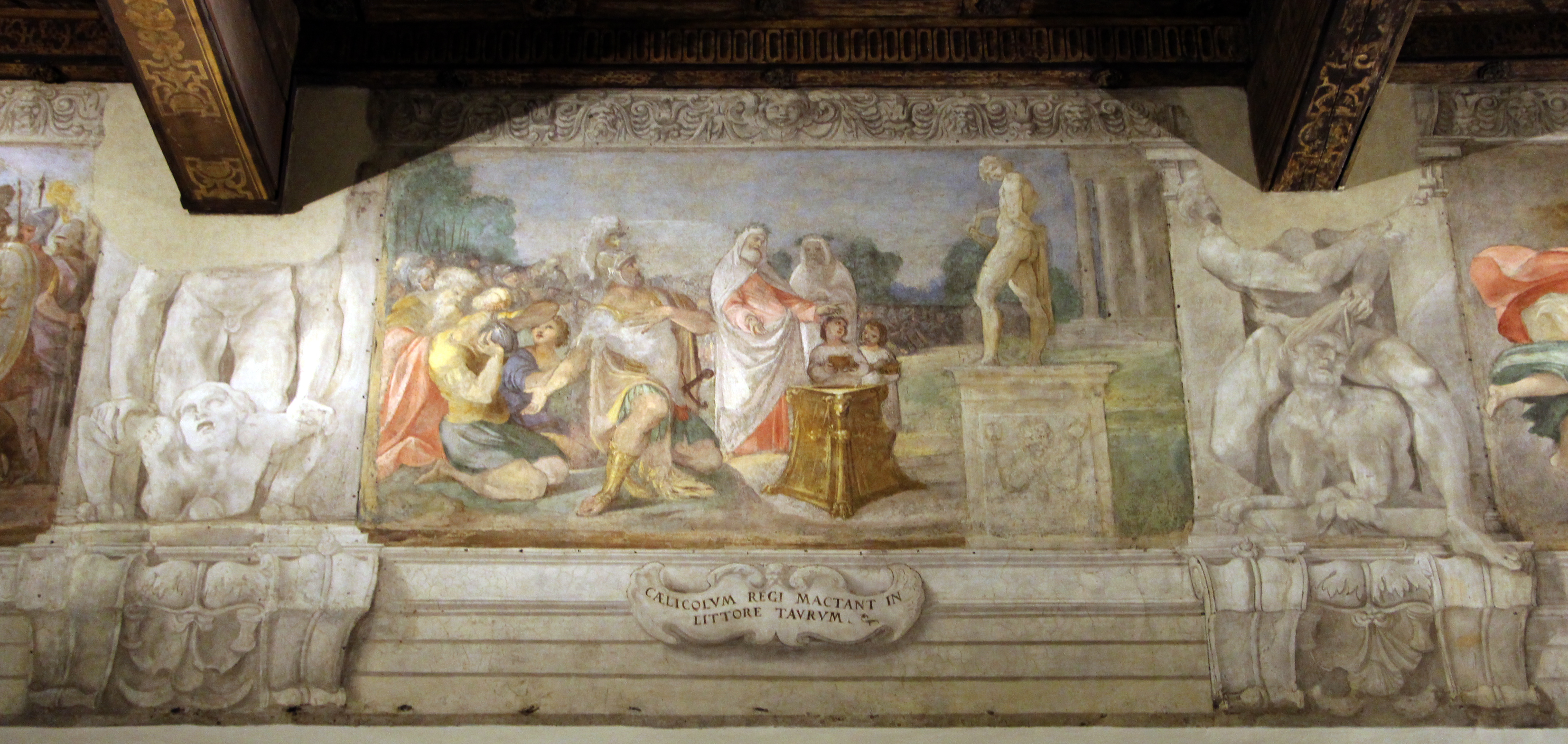 Frieze of Aeneas by the Carracci family